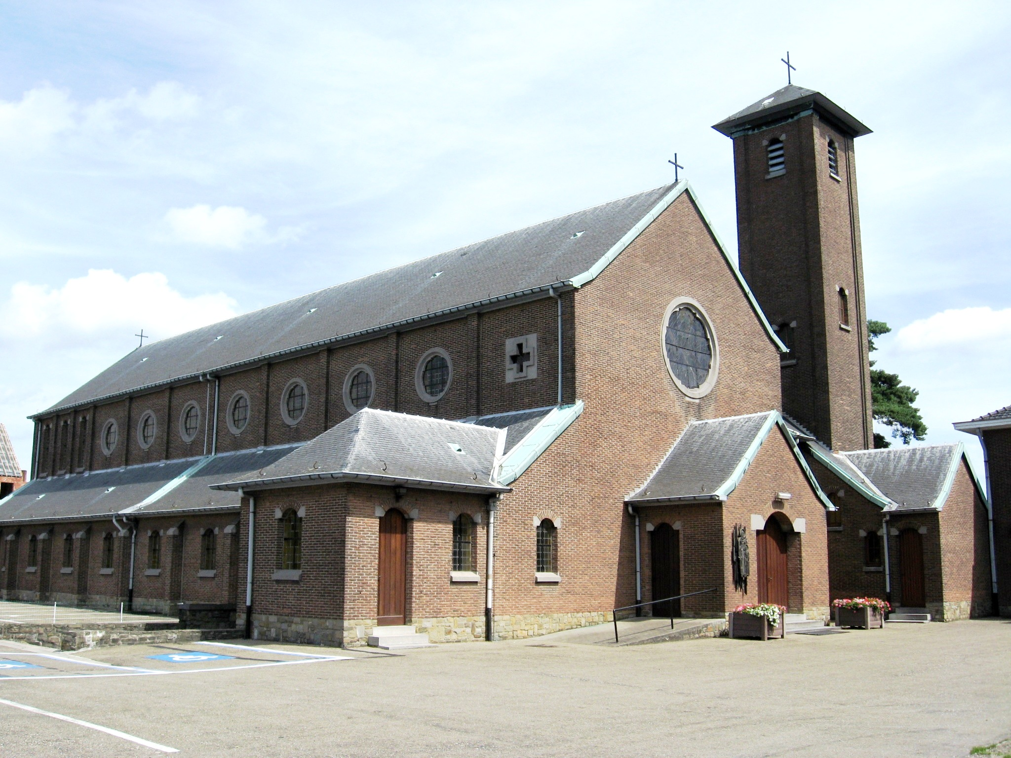 Church of Saint Joseph the Worker in Genk (Hoevenzavel), Limburg, Belgium